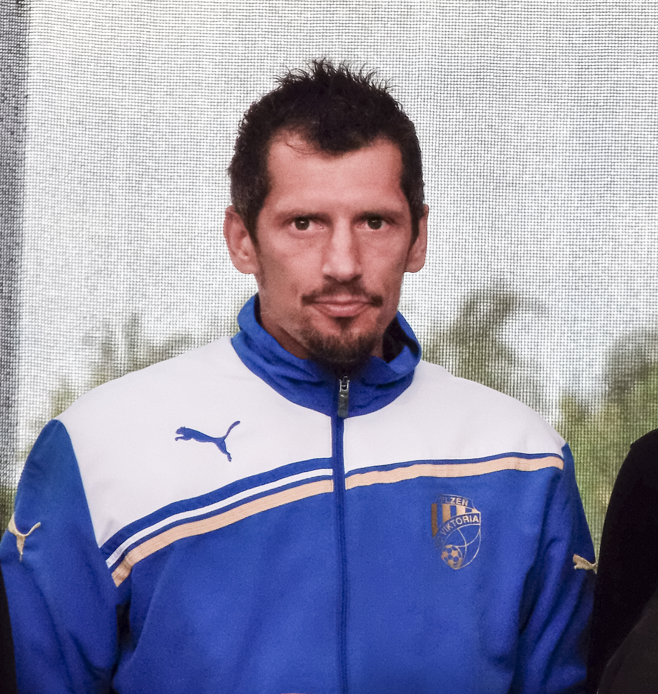 Marián Čišovský 2013-06-26 (Milan Razým a Marián Čišovský.JPG, cropped)